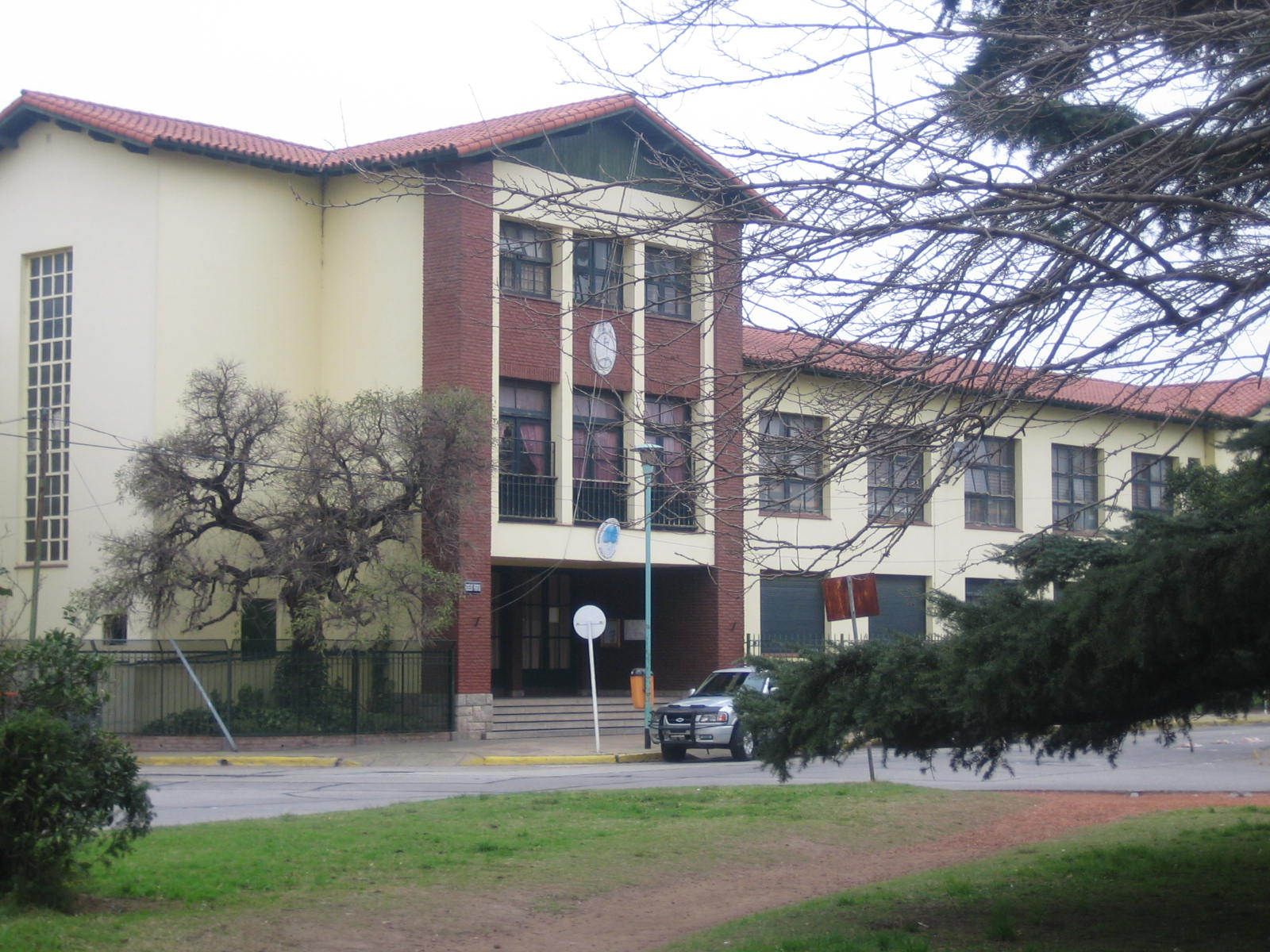 School in the Cornelio Saavdera neighborhood. Buenos Aires - Argentina